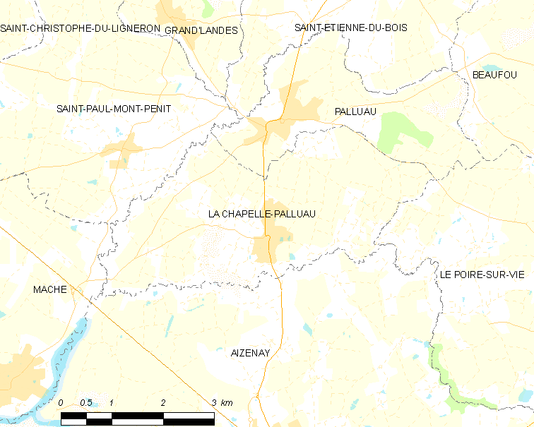 Map of French municipality La Chapelle-Palluau